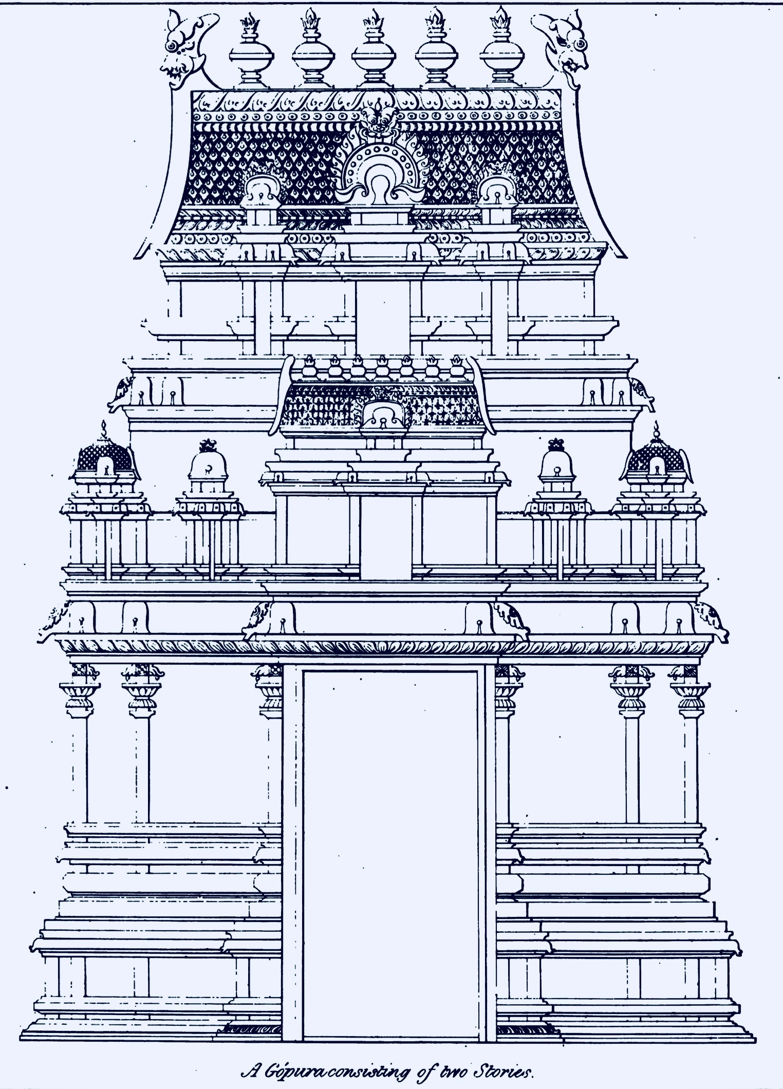 This is a photo of sketches made by Ram Raz and published in 1834. The source images can be found in Ram Raz (1834) Essay on the Architecture of the Hindus, Royal Asiatic Society of Great Britain and Ireland. A scholarly review of this source: Madhuri Desai (2012), Interpreting an Architectural Past Ram Raz and the Treatise in South Asia, Journal of the Society of Architectural Historians, Vol. 71, No. 4, pages 462-487